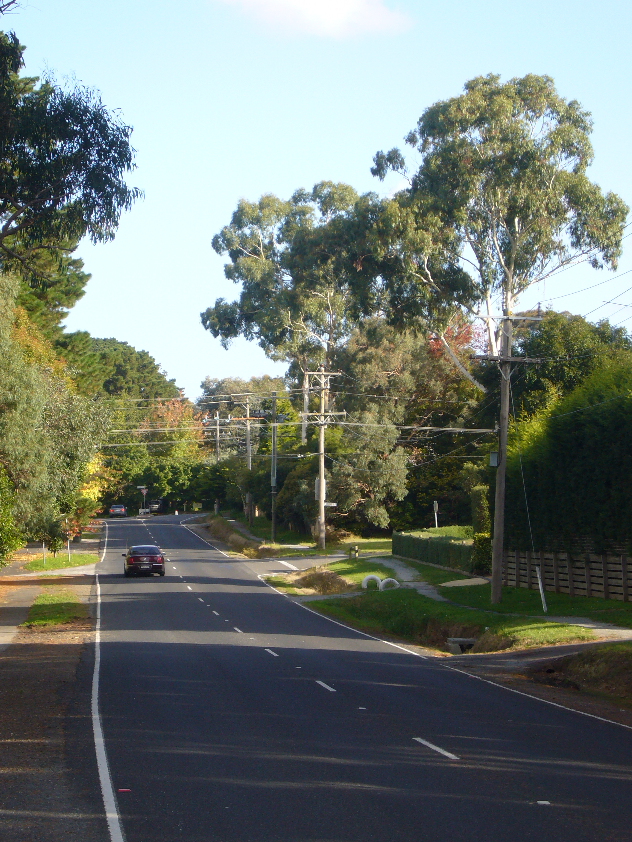 Park Orchards, Melbourne, Victoria, Australia, 2011. Knees Road looking south to Park Road.